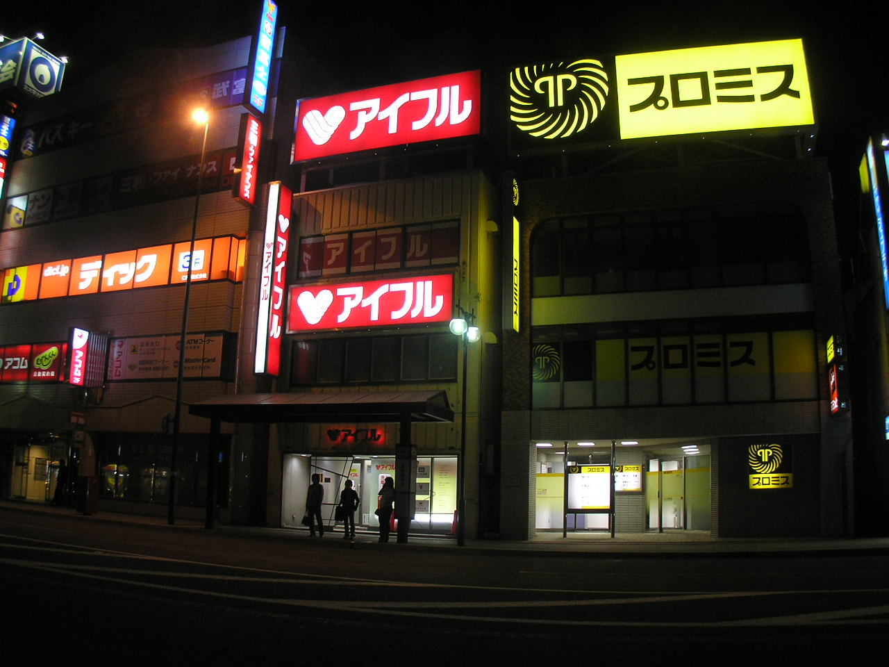 sarakin,サラ金、消費者金融雑居ビル、北海道